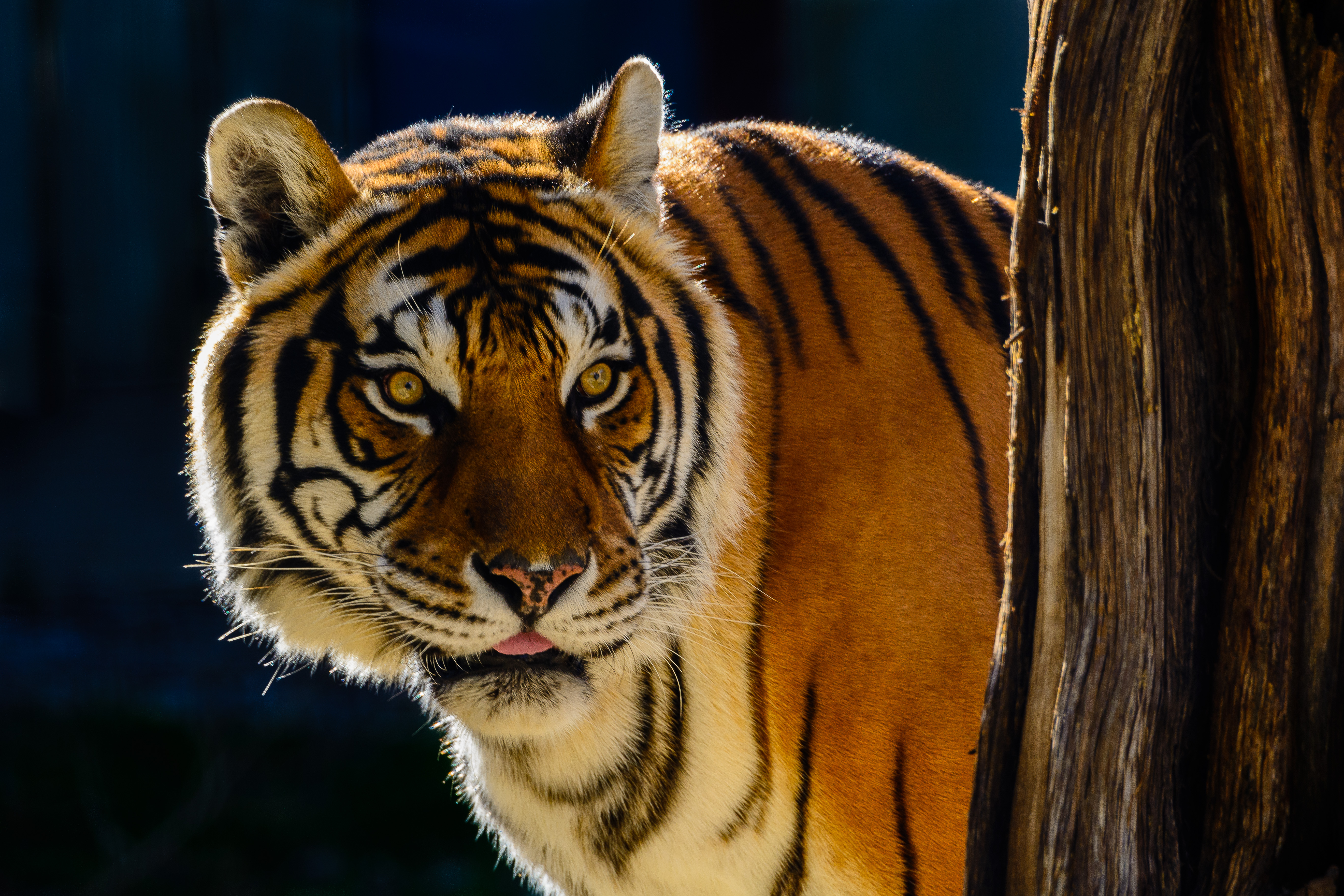 Bengal Tiger Portrait. Photographed at the Austin Texas Zoo